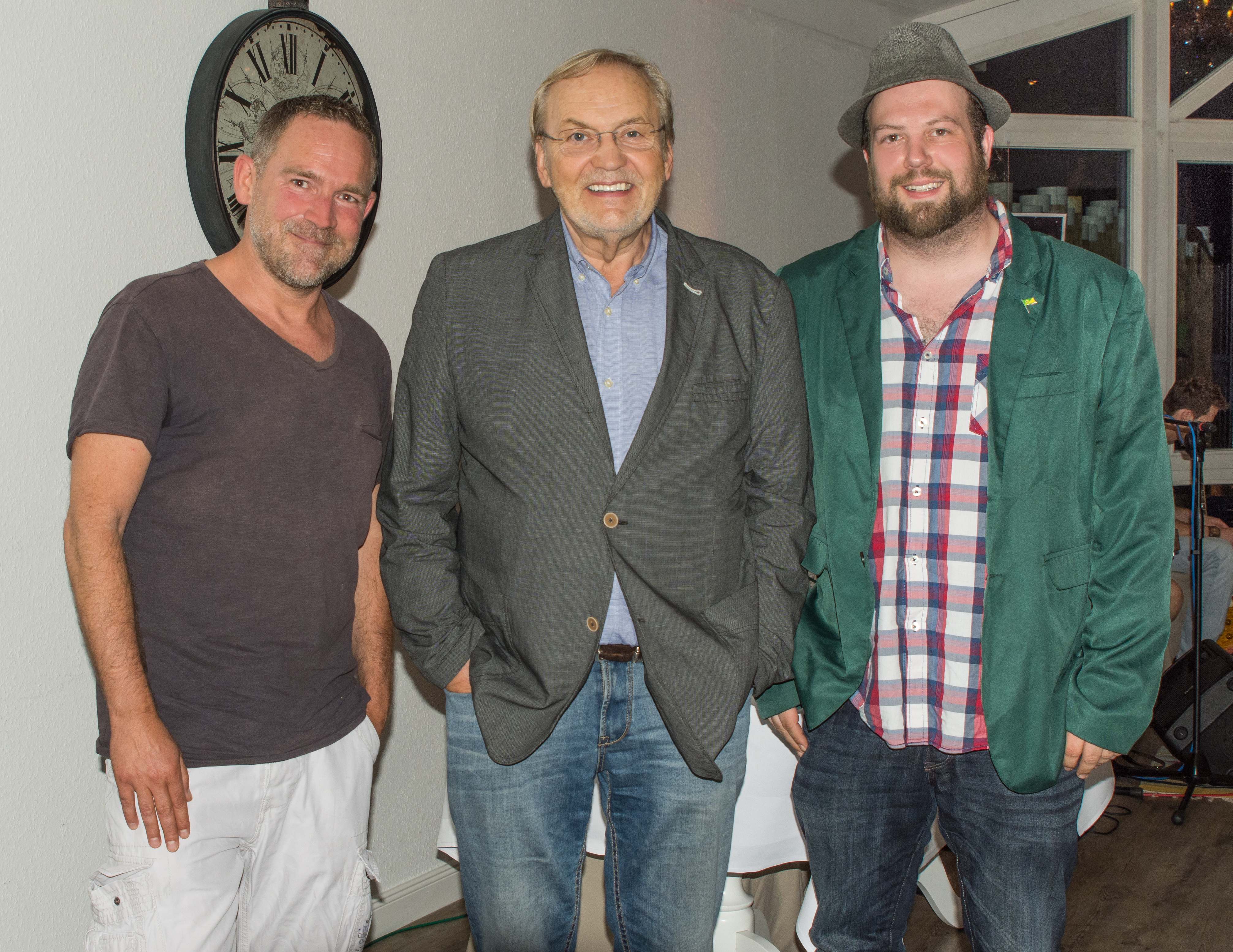 Premiere, Audiobook "The chronicles of the winddreams"